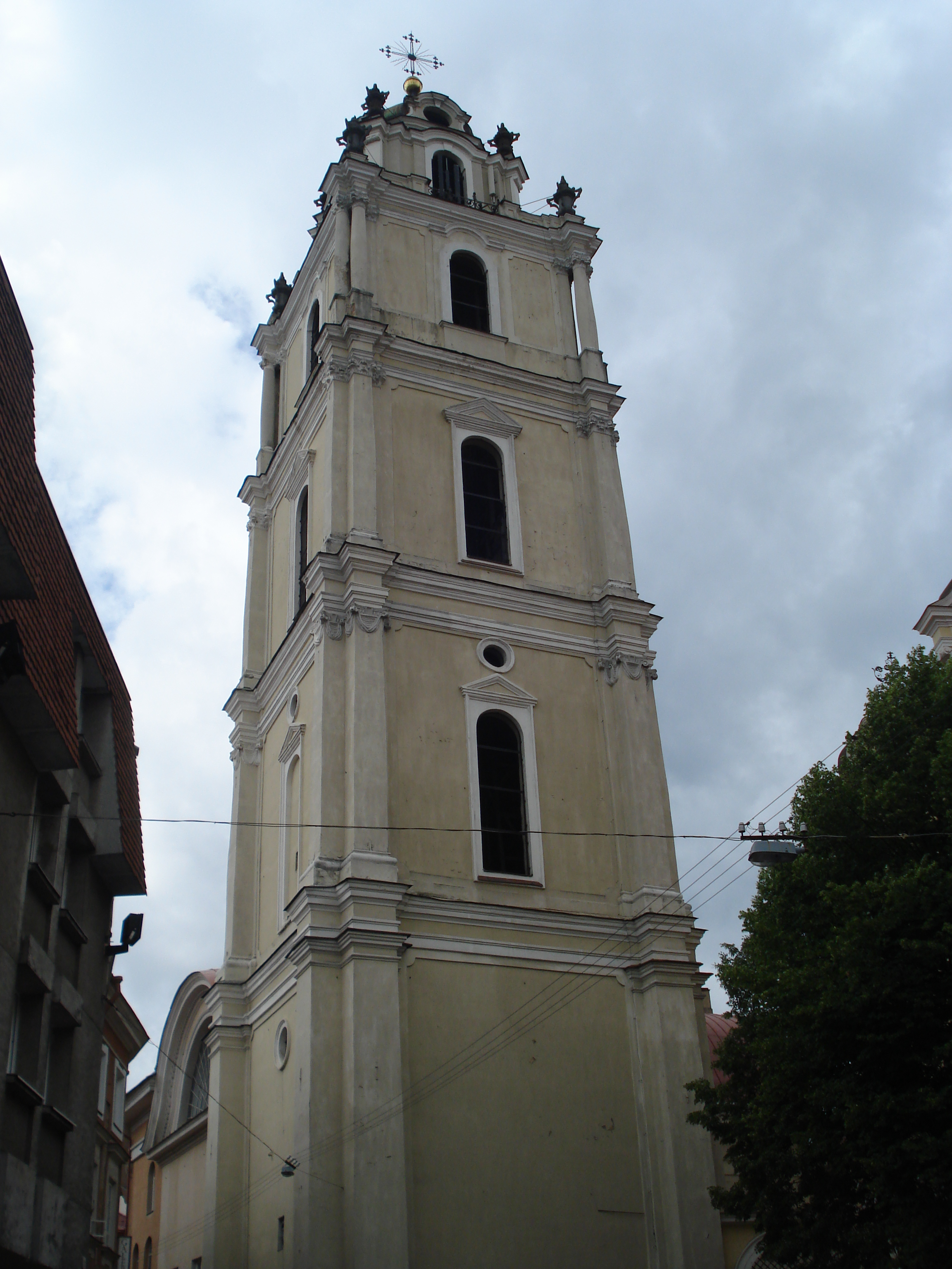 The bell tower of the Church of St. John in Vilnius